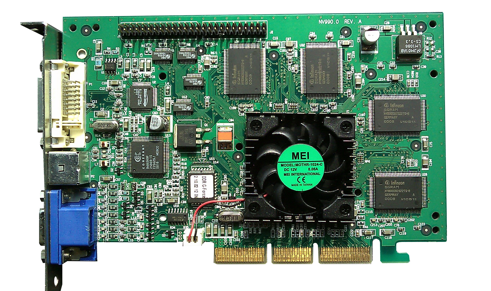 VisionTek GeForce 256 DDR Graphic card